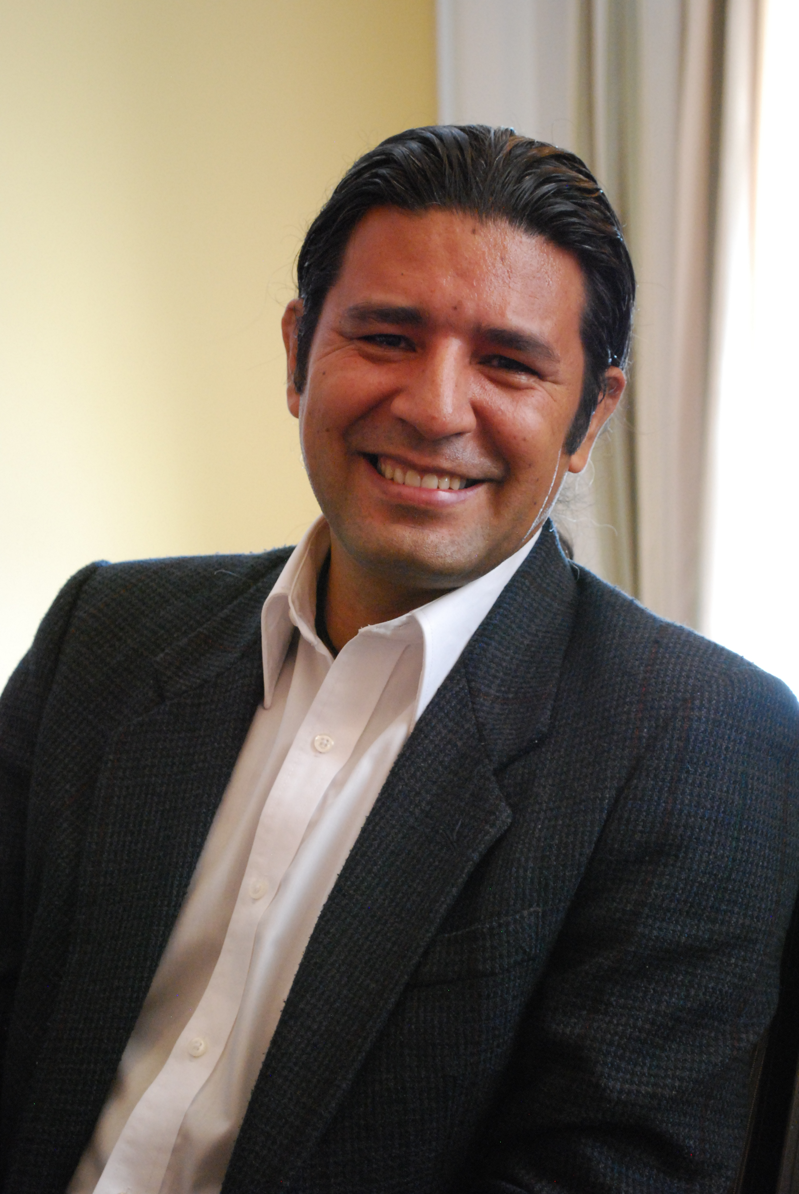 Dr. Emilio del Valle Escalante at the 58th Conference of the Seminar on the Acquisition of Latin American Library Materials in Coral Gables, Florida